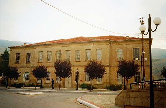 Outside Trabadzis Gymnasium, image from the Botanical Museum of the Mountaineering Association, Siatista, West Macedonia, Greece